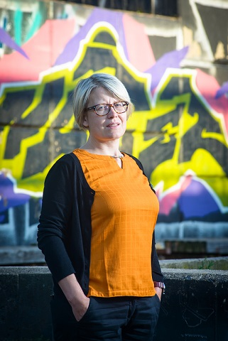 Photo of Petra Kolínská